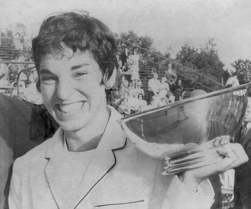 LG17 1969 Wire Photo JULIE HELDMAN Wightman Cup Tennis MVP Trophy Babe Athlete